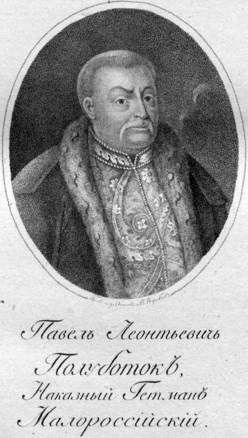 Pavlo Polubotok